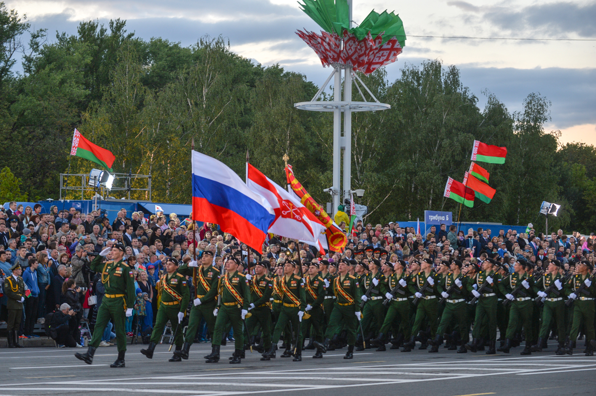 Военнослужащие, боевая техника и авиация Западного военного округа приняли участие в военном параде, посвящённом Дню независимости Республики Беларусь